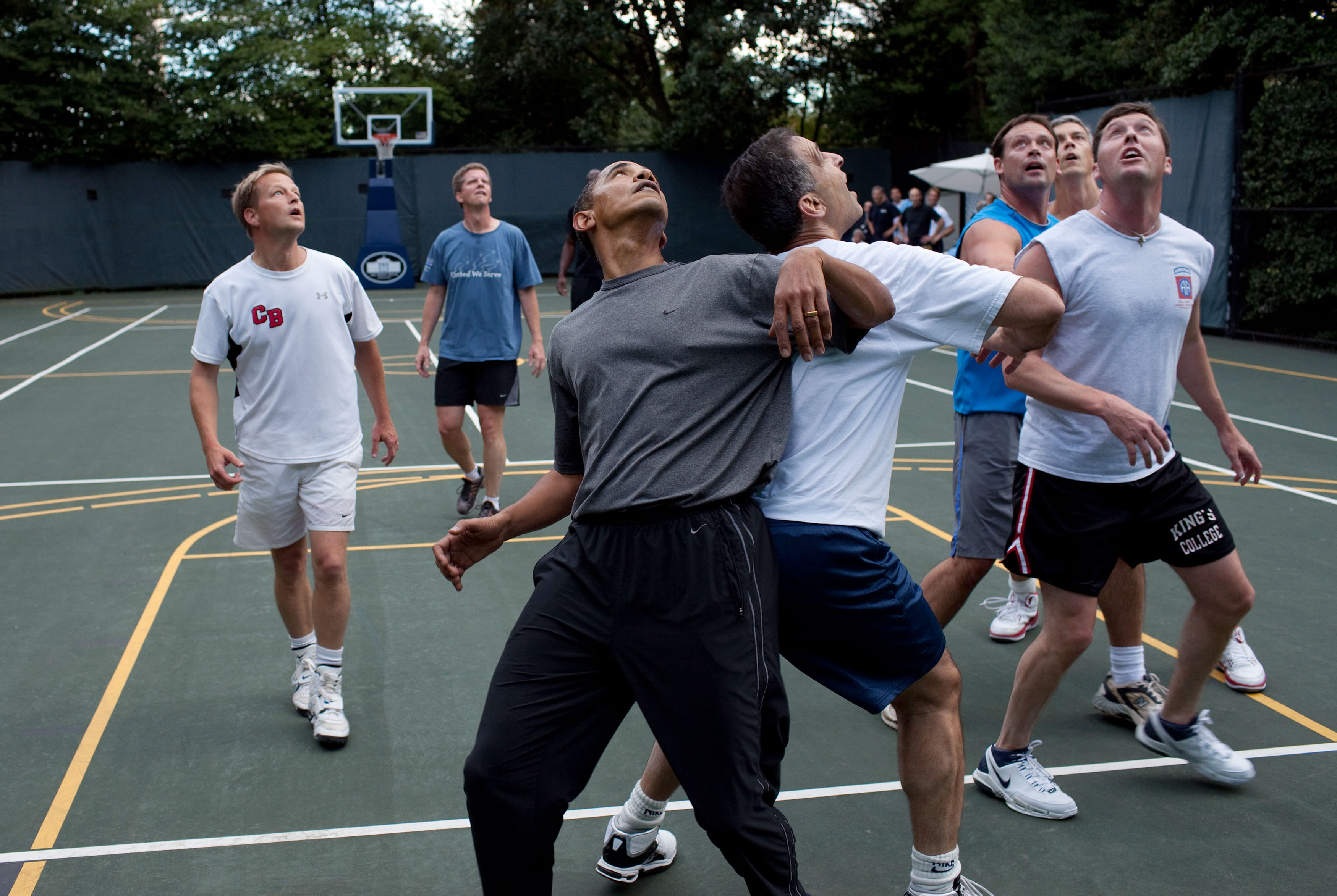 President Barack Obama, along with members of Congress and Cabinet secretaries, jockeys for a rebound during a basketball game on the White House court, Oct. 8, 2009.